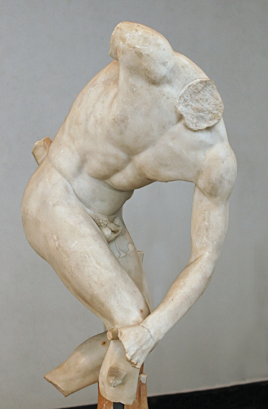 Castelporziano Discobolus. Marble, Roman artwork, reign of Hadrian (117–138 CE).